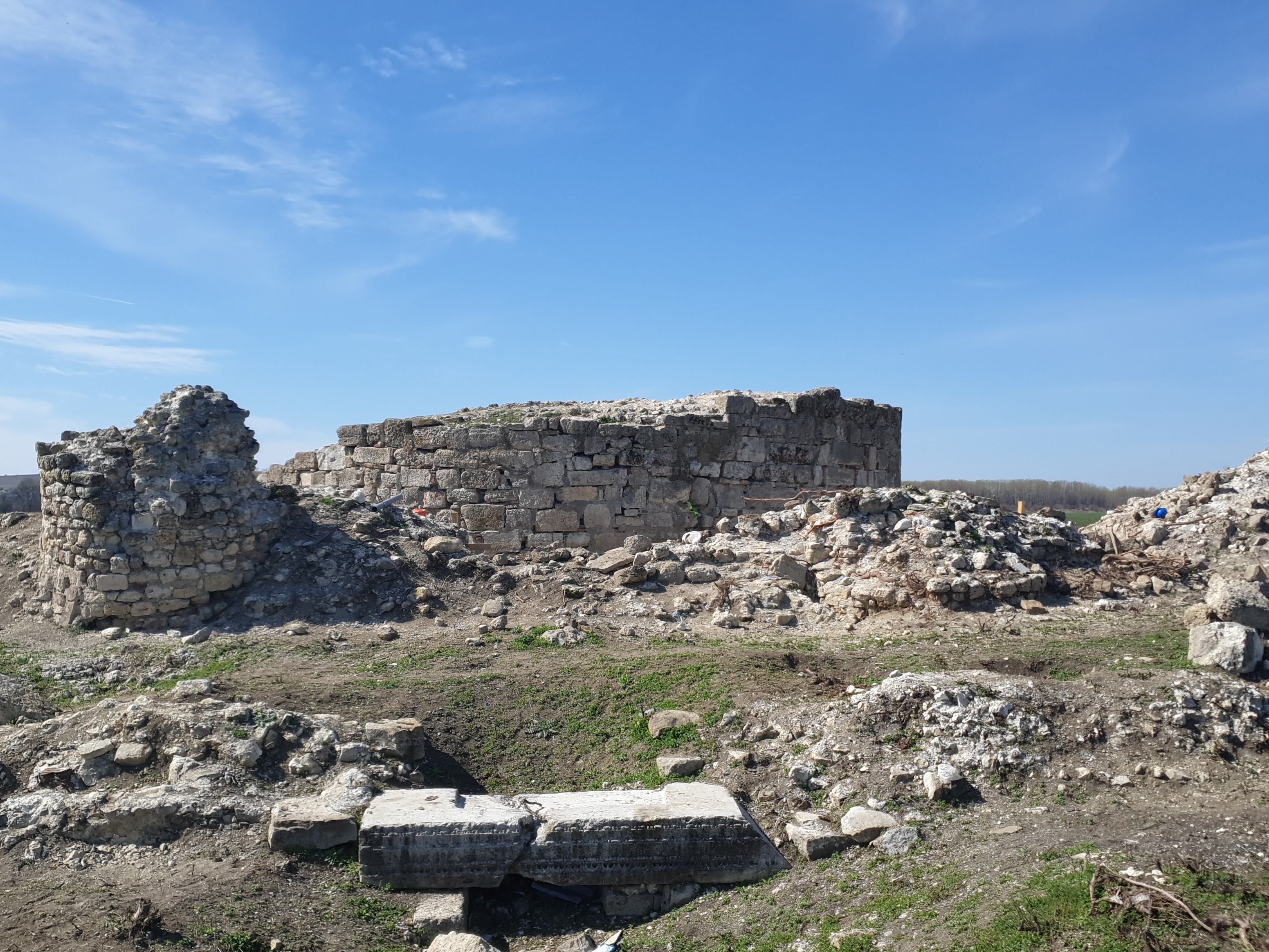 Ruins of Turnu Citadel (Turnu Măgurele).